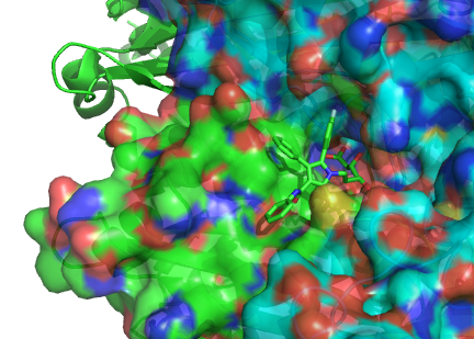 COMPLEX OF THE CATALYTIC PORTION OF HUMAN HMG-COA REDUCTASE WITH ATORVASTATIN. PDB 1hwk